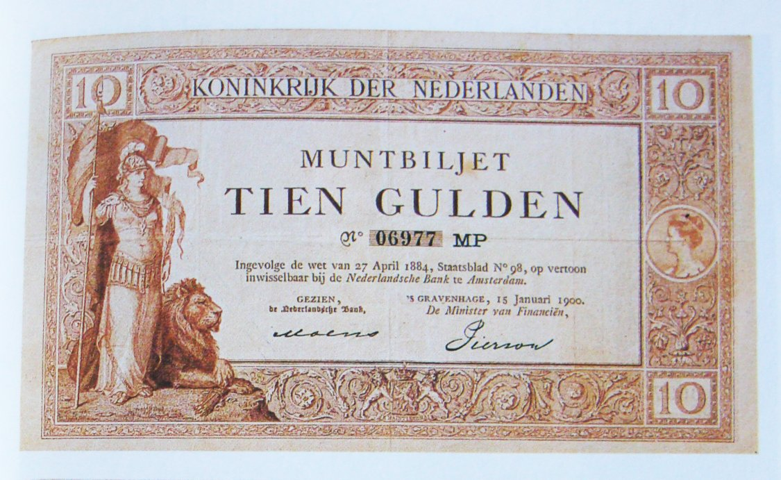 "Muntbiljet" (Lit.: "coin voucher"), a type of "banknote" issued by the Dutch government as a replacement for gold or silver coins. This model was in use from 1900 to 1904 to replace the golden 10 guilder coin.